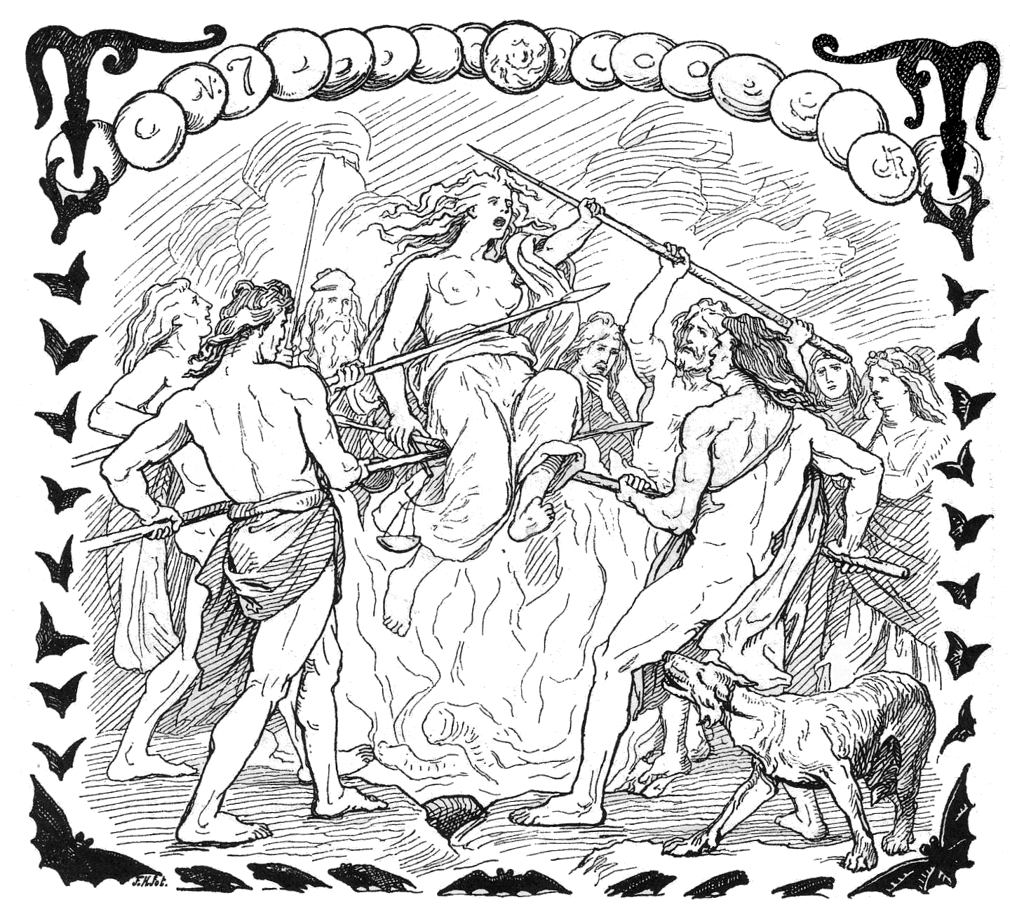 Gullveig is lifted on spears over a fire. The signature of the artist (an LFR-ligature) is in the upper right corner. In the lower left corner there is something that looks like "F.H. fot." This, no doubt, is the signature of the individual or (more likely) company that reproduced the original drawing for printing. I suspect this may be Fredrik Hendriksen's (1847-1938) company but I haven't been able to confirm that.